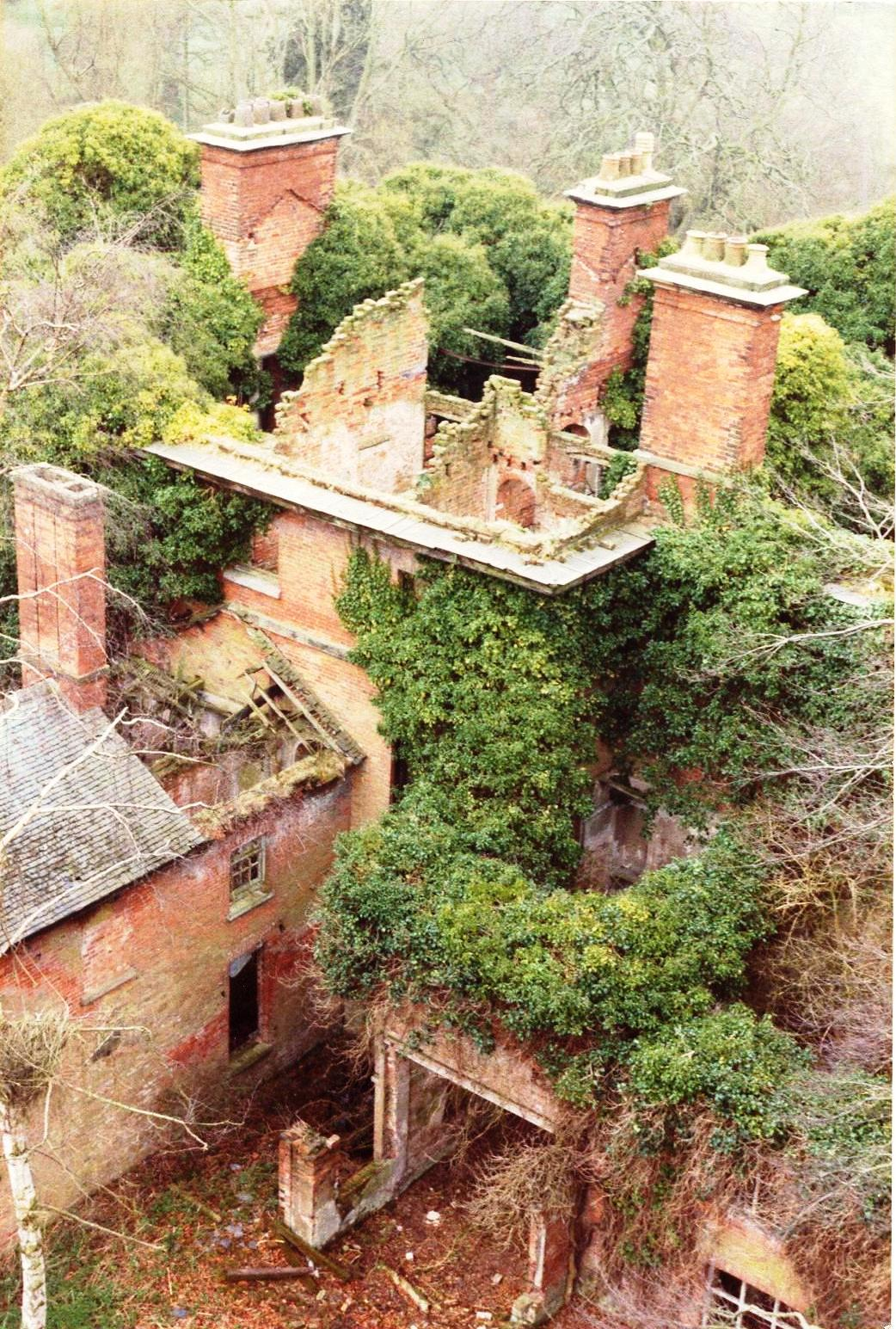 Ranton Abbey House, viewed from the tower of Ranton Priory, showing fire-gutted building remains covered in Ivy; view looking towards the southeast.